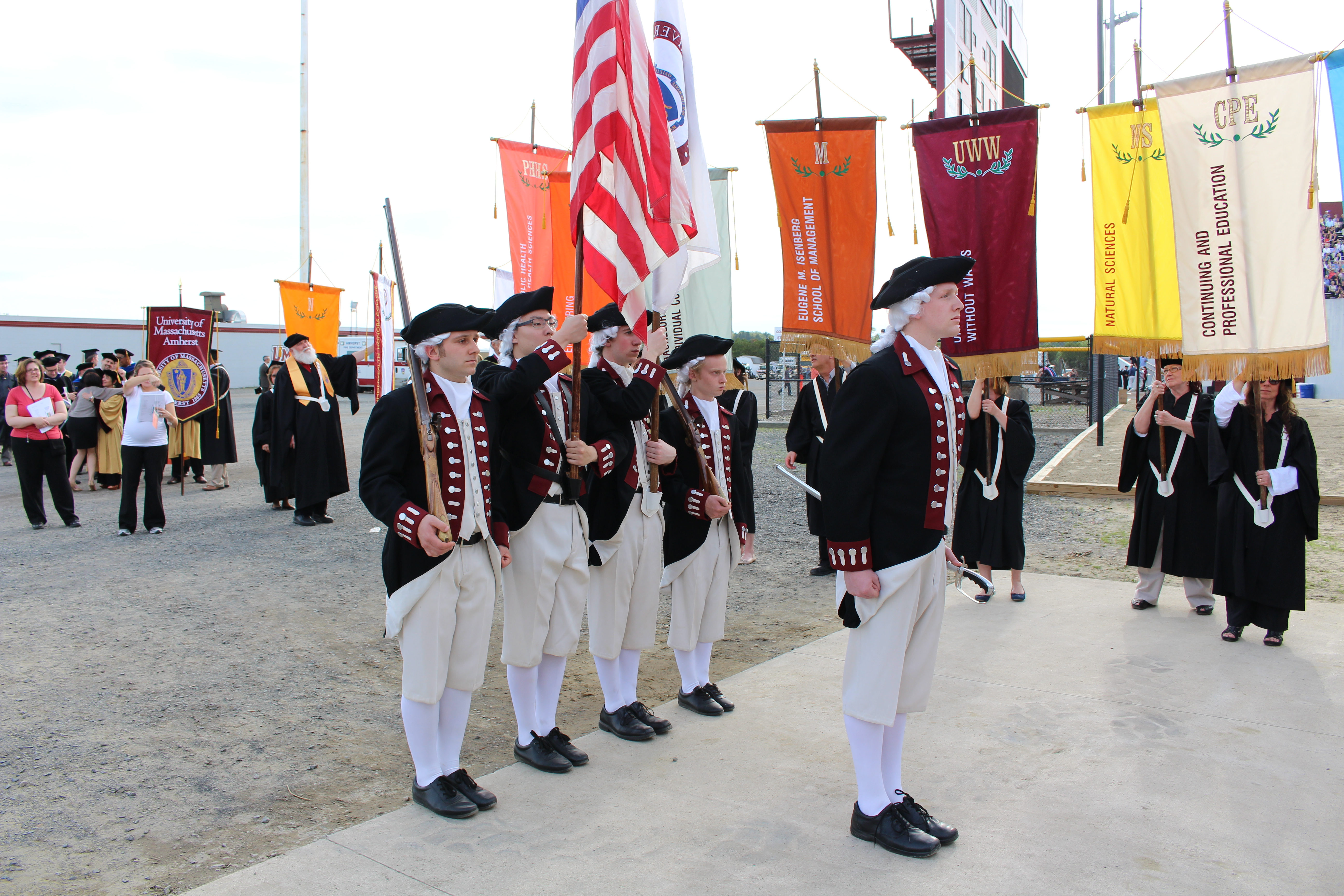 Honor Guard of the UMass Marching Band.